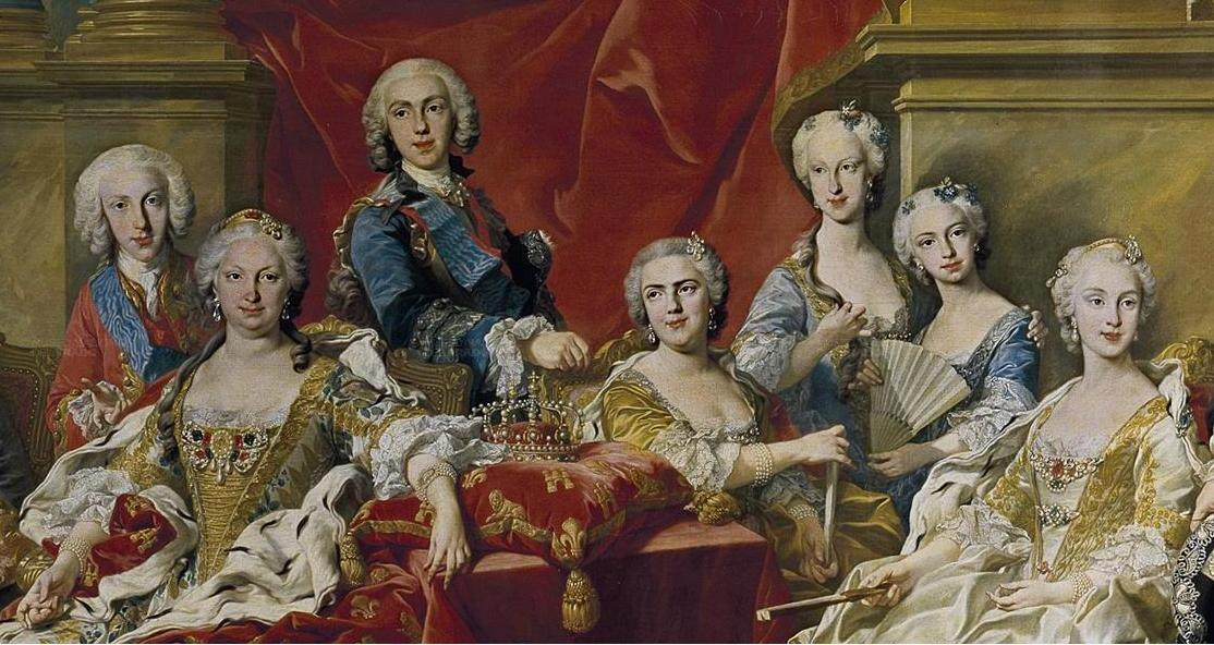 Detail (Luis Antonio, Queen Elisabeth, Infante Felipe, Princess Louise Élisabeth, María Teresa Rafaela, María Antonia Fernanda and Queen Maria Amalia))